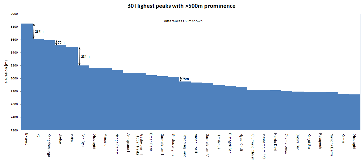 Bar graph of the 30 highest peaks with labels showing height differences greater than 50m.